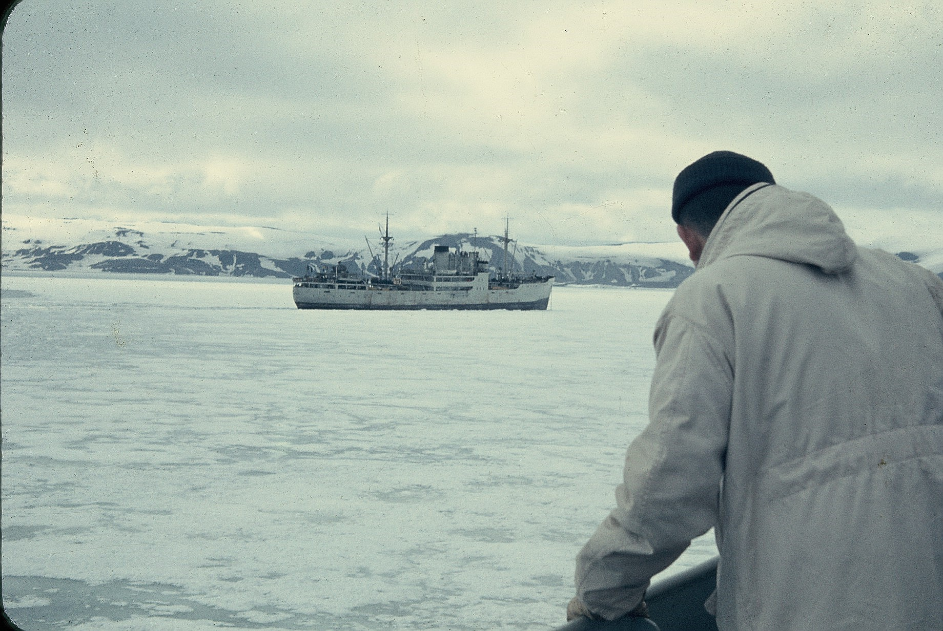 Brash ice, Foster Bay, Deception Island.